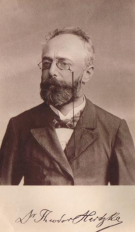 a portrait of Theodor Hertzka